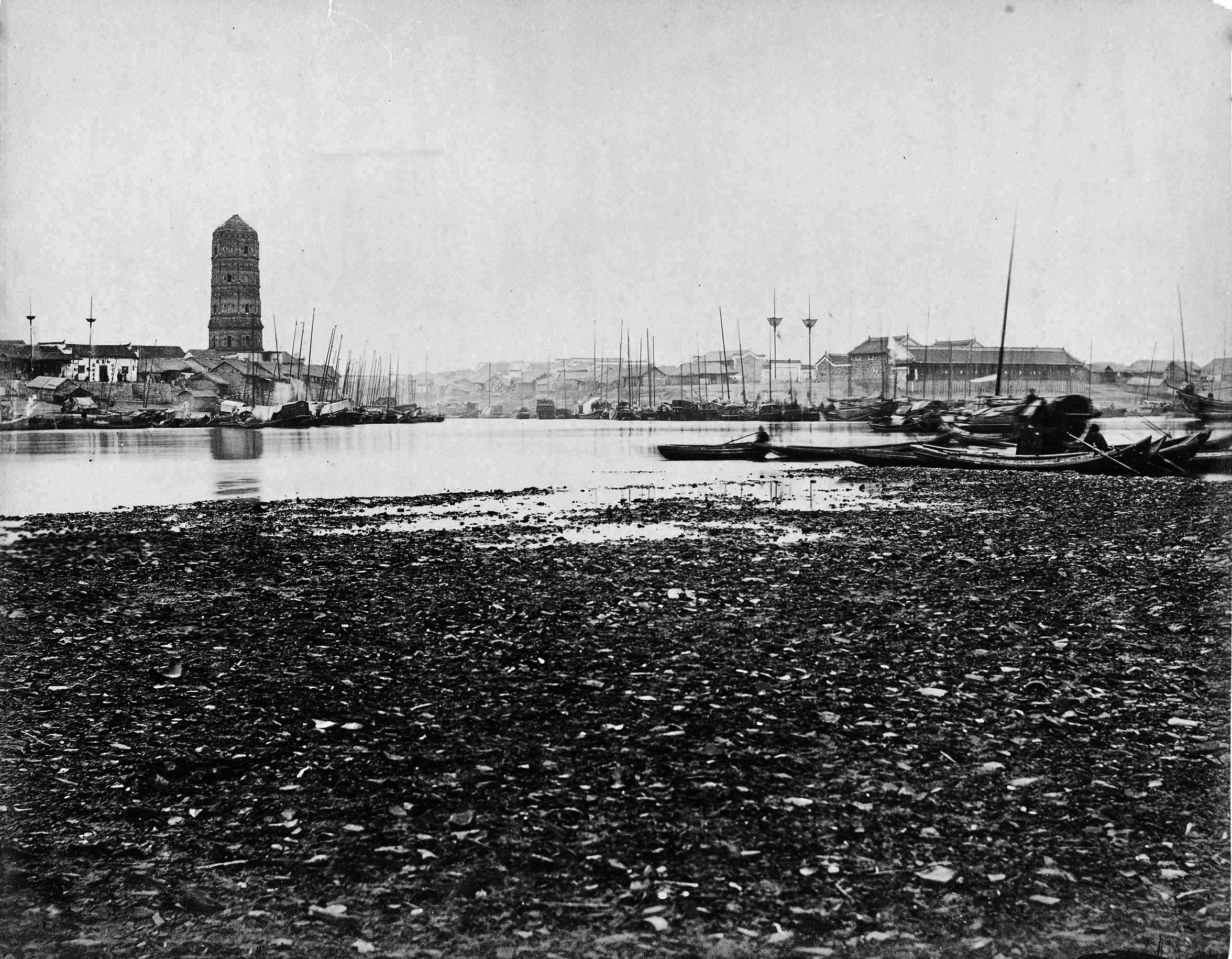 Photograph in Images related to Shanghai and other Chinese cities.